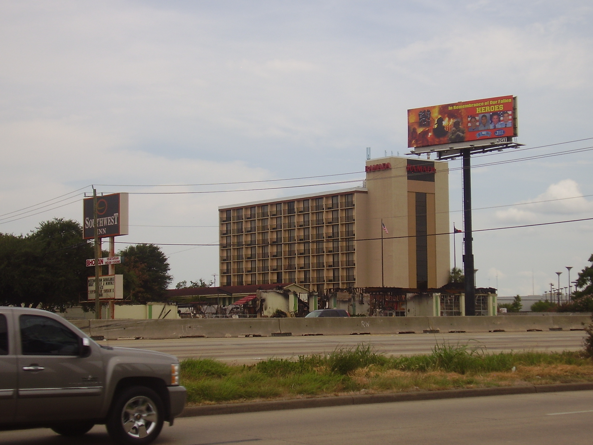 Aftermath of the Southwest Inn fire